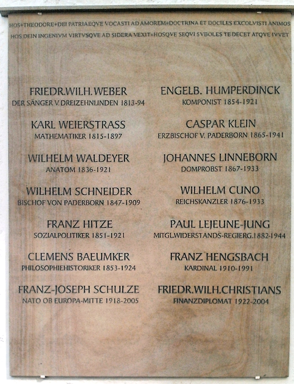 New roll of honor, Gymnasium Theodorianum, Paderborn, Germany (applied in august 2009) (The old roll of honor see below) The latin inscrption obove is (freely translated): These men, oh Theodore, You called to Godhead and fatherland. By science You have also enriched their life. You have led their talent and virtue to the sun. To follow them helps and honours the descendants. Left side: Friedrich Wilhelm Weber, Writer, Doctor of midicine and Politician (1813-1894) Karl Weierstrass, Mathematician (1815-1897) Wilhelm Waldeyer, Anatomist (1836-1921) Wilhelm Schneider, Bishop of Paderborn (1847-1909) Franz Hitze, Professor of theology and Social-Politician (1851-1921) Clemens Baeumker, Historian of philosophy (1853-1924) Franz-Joseph Schulze, NATO Commander-in-Chief of Allied Command Europe (1918-2005) Right side: Engelbert Humperdinck, Composer (1854-1921) Caspar Klein, Archbishop of Paderborn (1865-1941) Johannes Linneborn, Provost of Cathedral in Paderborn (1867-1933) Wilhelm Cuno, Imperial Chancellor (1876-1933) Paul Lejeune-Jung, Member of Resistance-government (1882-1944) Franz Hengsbach, Cardinal (1910-1991) Friedr. Wilh. Christians, chairman of the executive board oft the Deutsche Bank), (1922-2004)